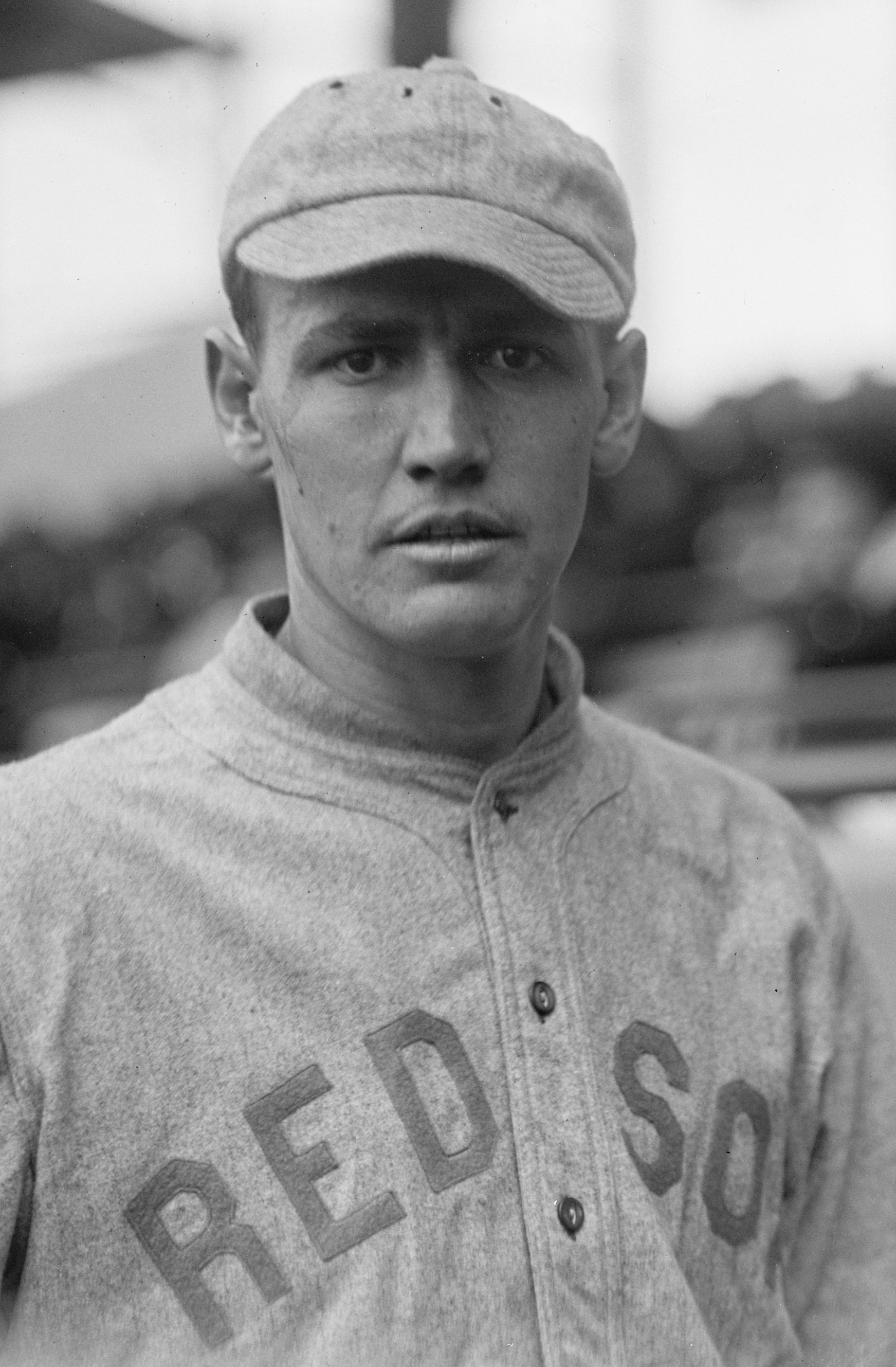 "Smokey" Joe Wood, Boston AL (baseball)